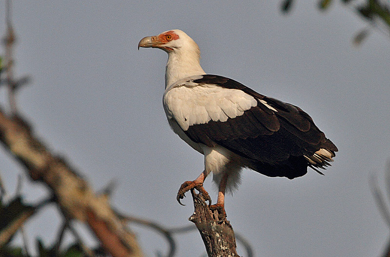 Palm-nut vulture or Vulturine Fish Eagle. This image was taken from a canoe, at Makasutu, Gambia.